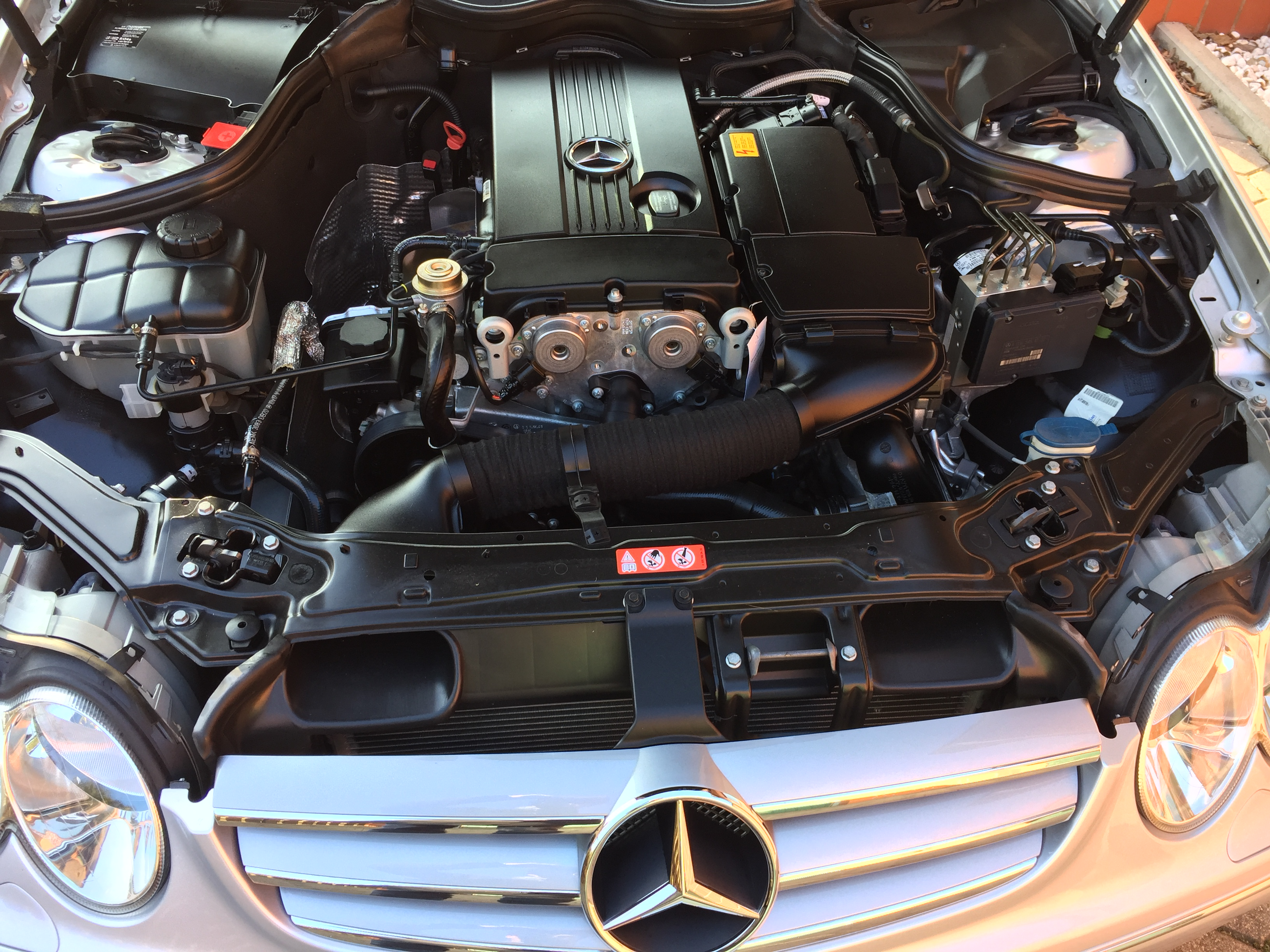 Engine compartment of a Mercedes CLK C209 Coupe from 2006.